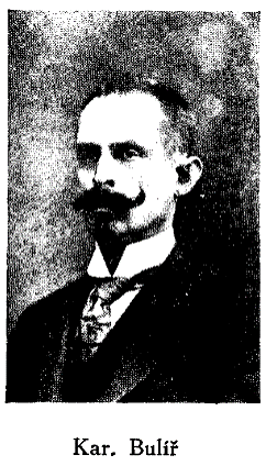 Portrait of Karel Bulíř (1868-1939), Czech physician and popularizer of medicine